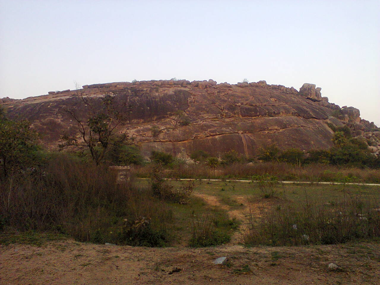 ముశిపట్ల గుట్ట